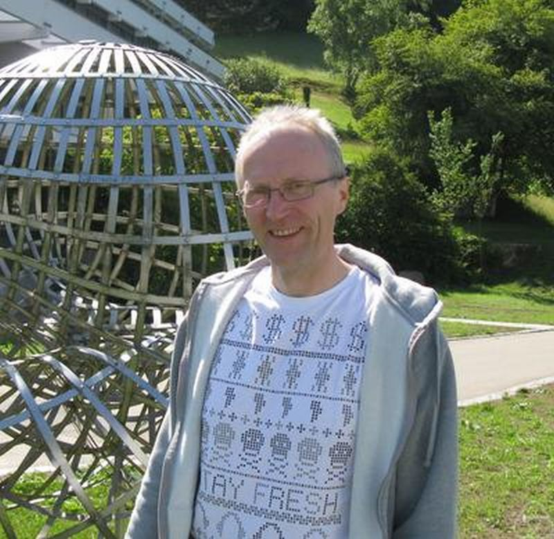 Anton Deitmar, Oberwolfach 2011